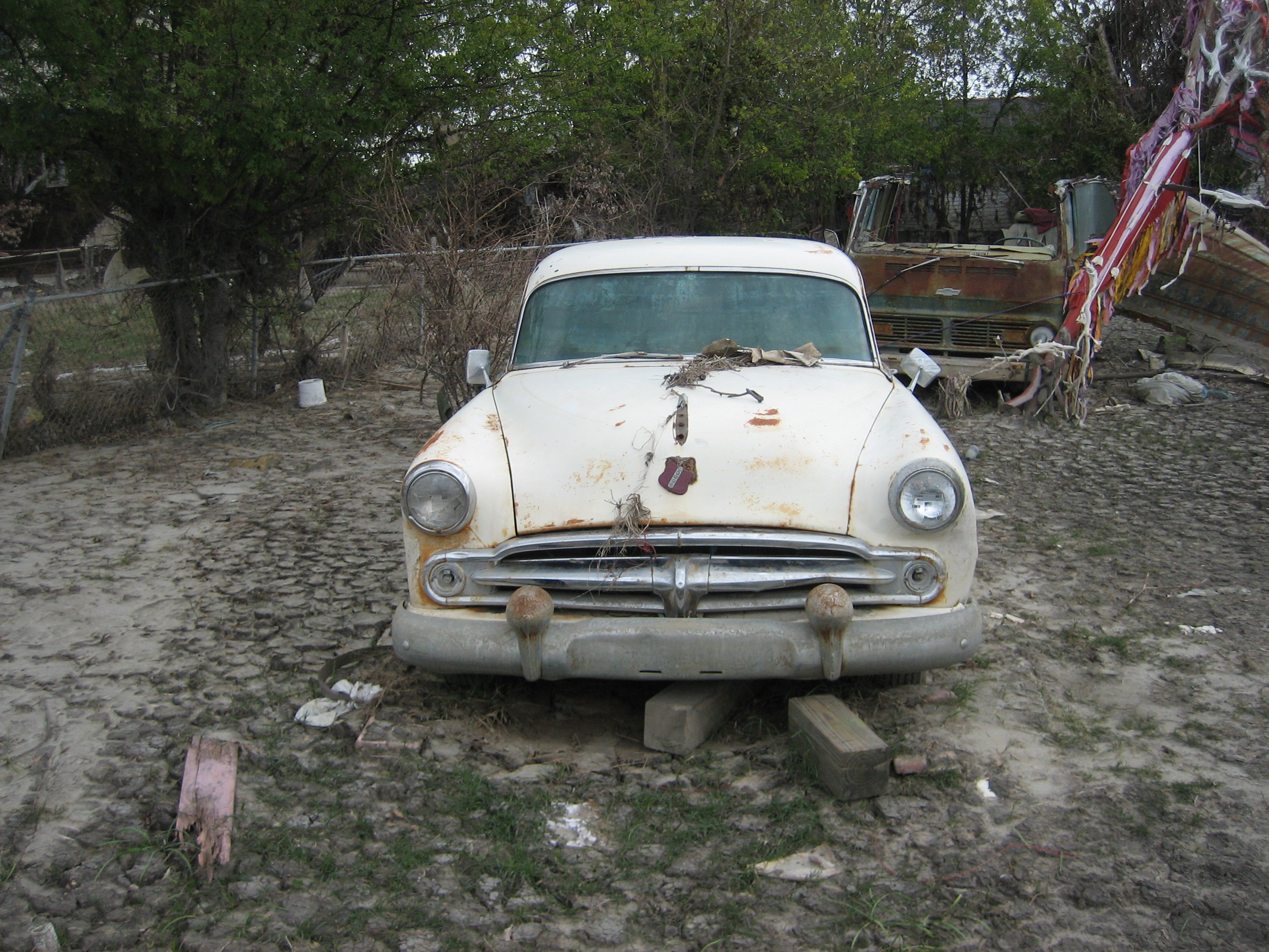 New Orleans after Hurricane Katrina: Mid-20th century Dodge Coronet automobile in formerly flooded out Lower 9th Ward. Photo by Infrogmation, December, 2005.